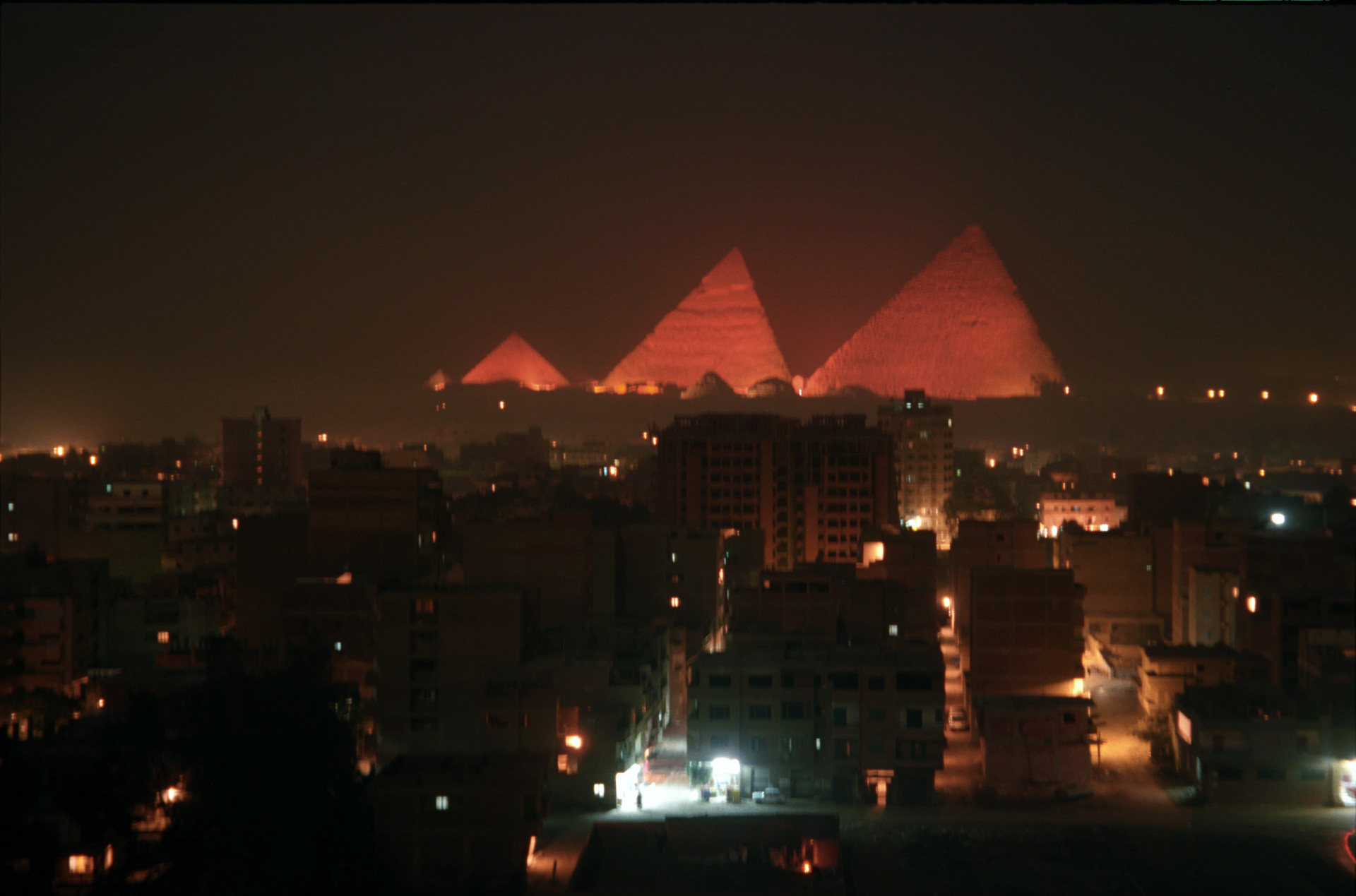 Great Pyramid of Giza